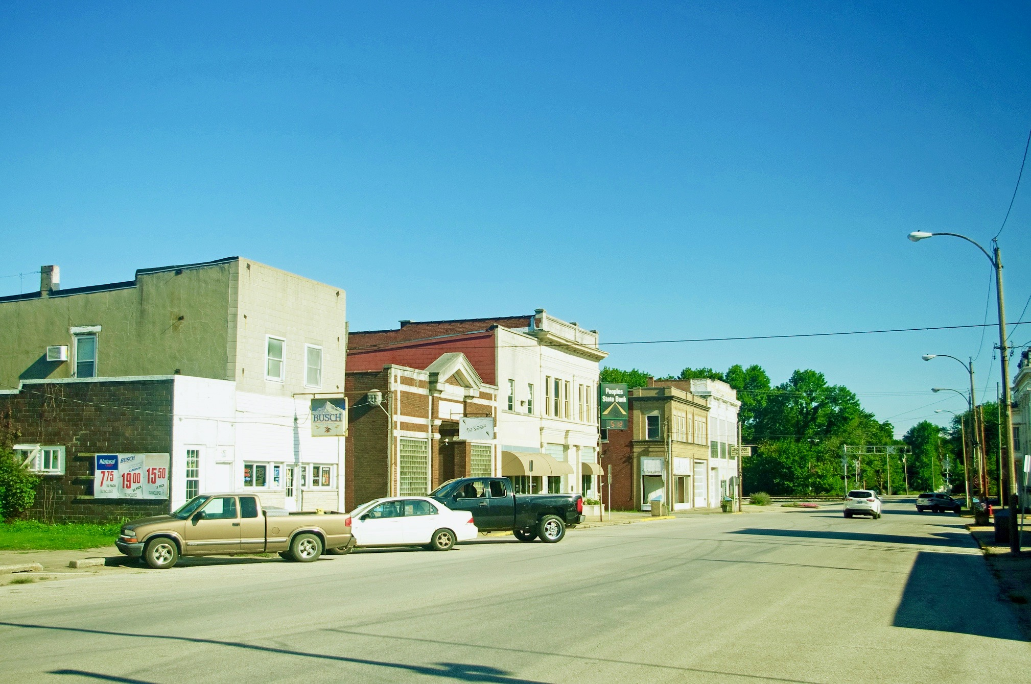 View along Main Street in Bridgeport, Illinois, United States.